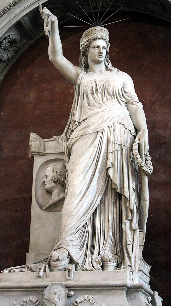 Memorial monument to the poet Giovanni Battista Niccolini, by Pio Fedi (Basilica of Santa Croce, Florence). The sculpture represents the Libery of Poetry, who holds a lyre in her right hand and a laurel wreath in her left hand. The broken chain sybolizes defeated tyranny.